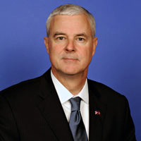 Steve Womack, member of the United States House of Representatives.